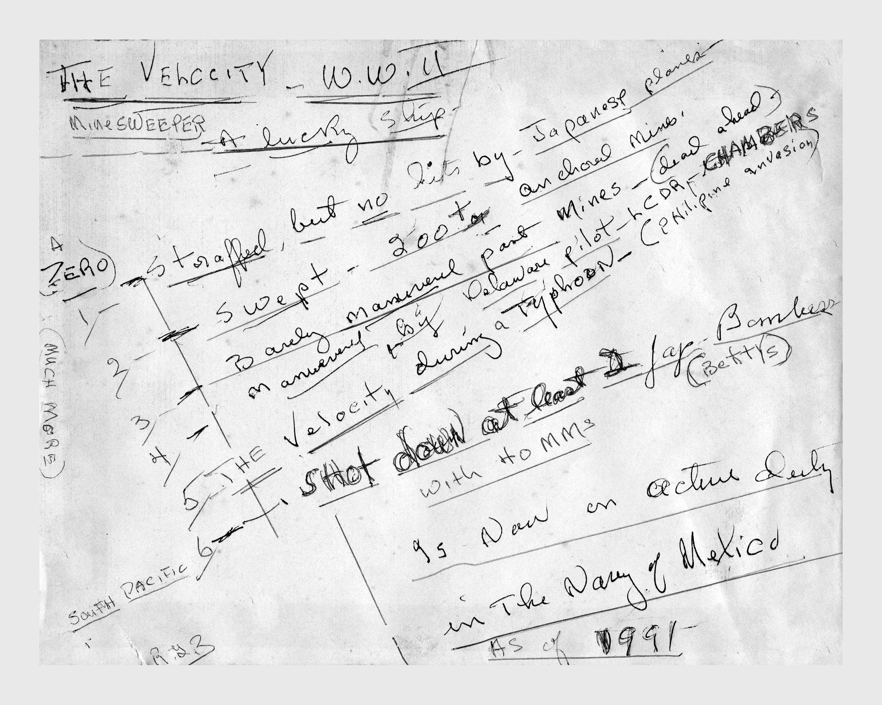 Notes on the Back of a picture of the USS Velocity by LCDR Roland Blandford